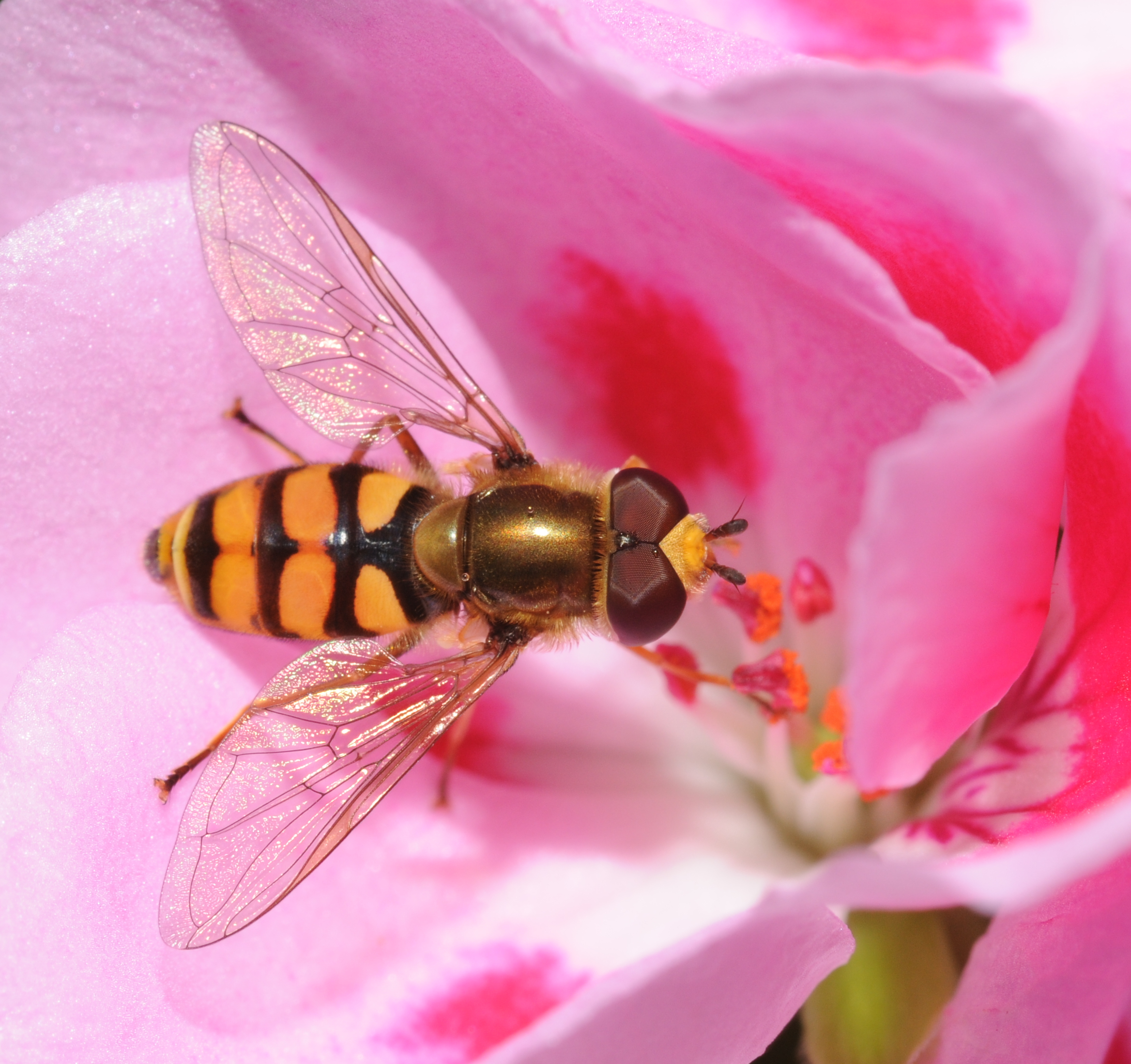 Syrphidae sp. in a flower